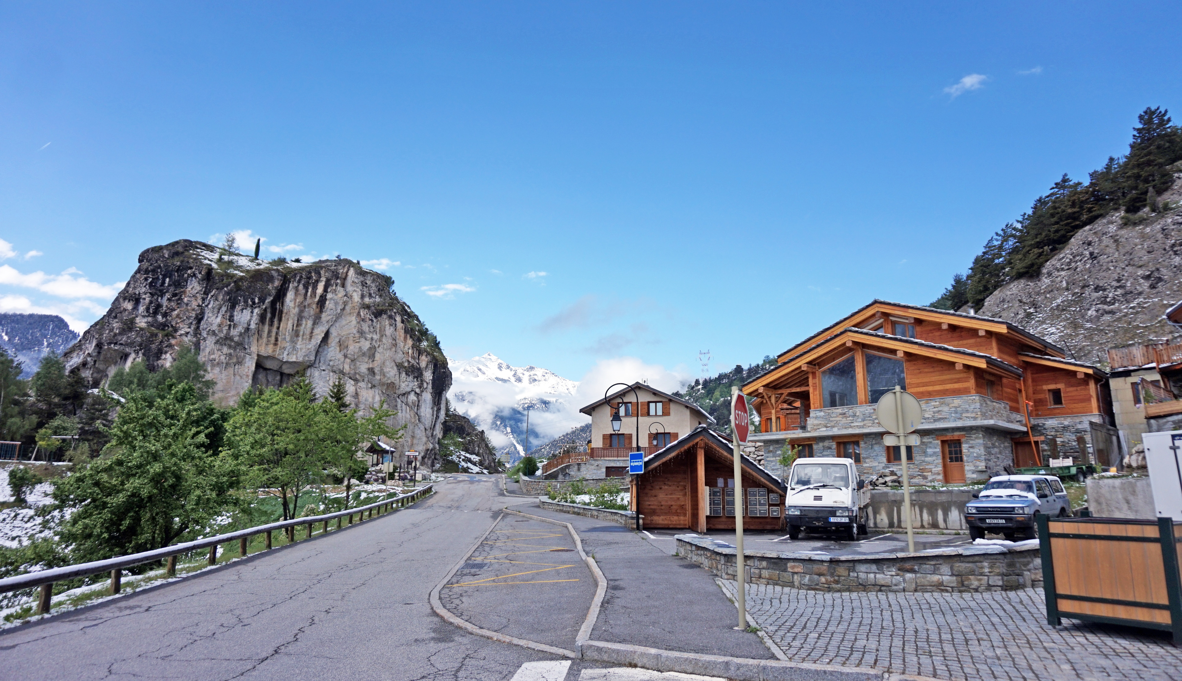 Le Bourget in France.